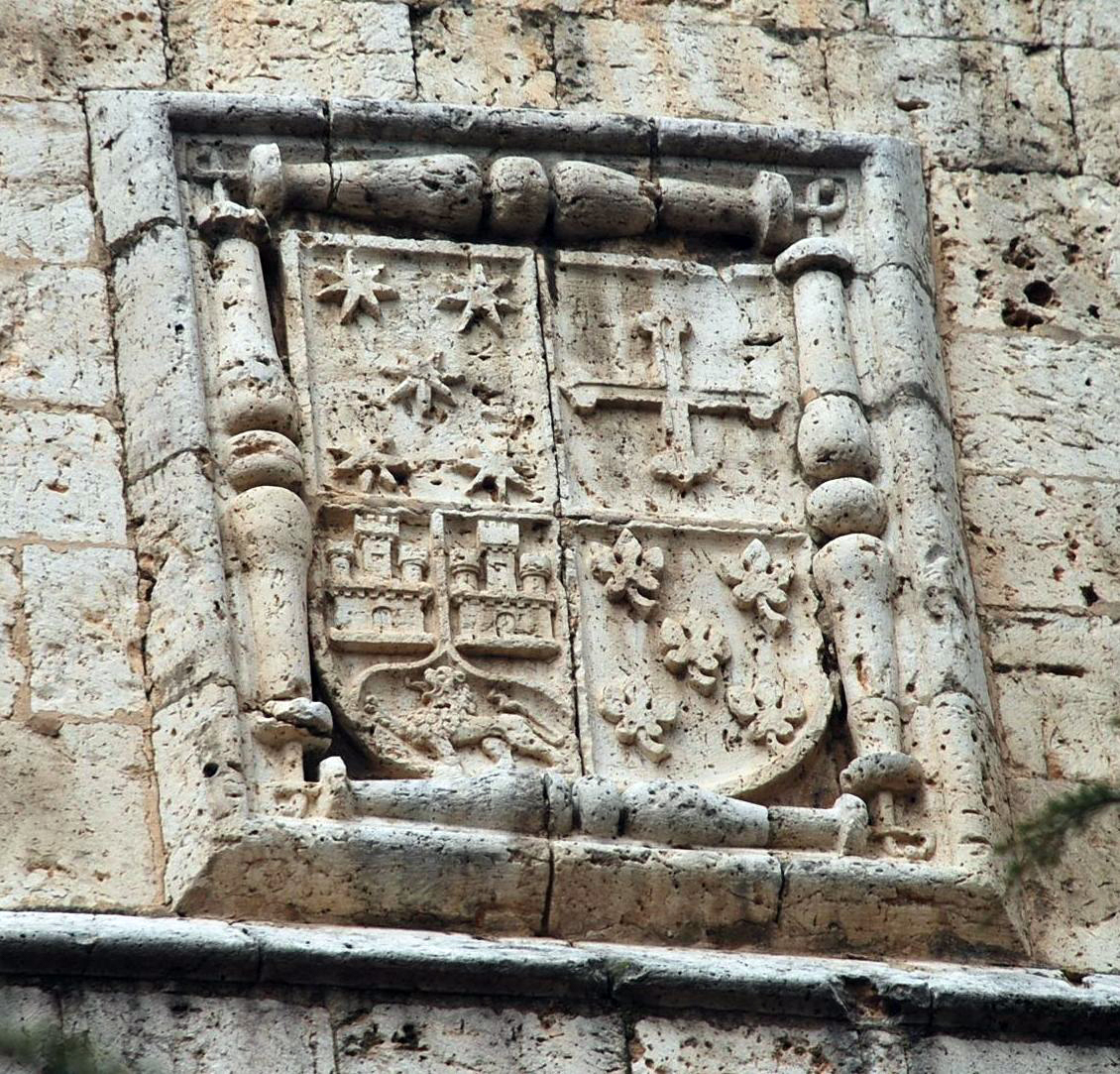 Coat of arms in the Church of Saint Paul in Palencia city (Castile and León).